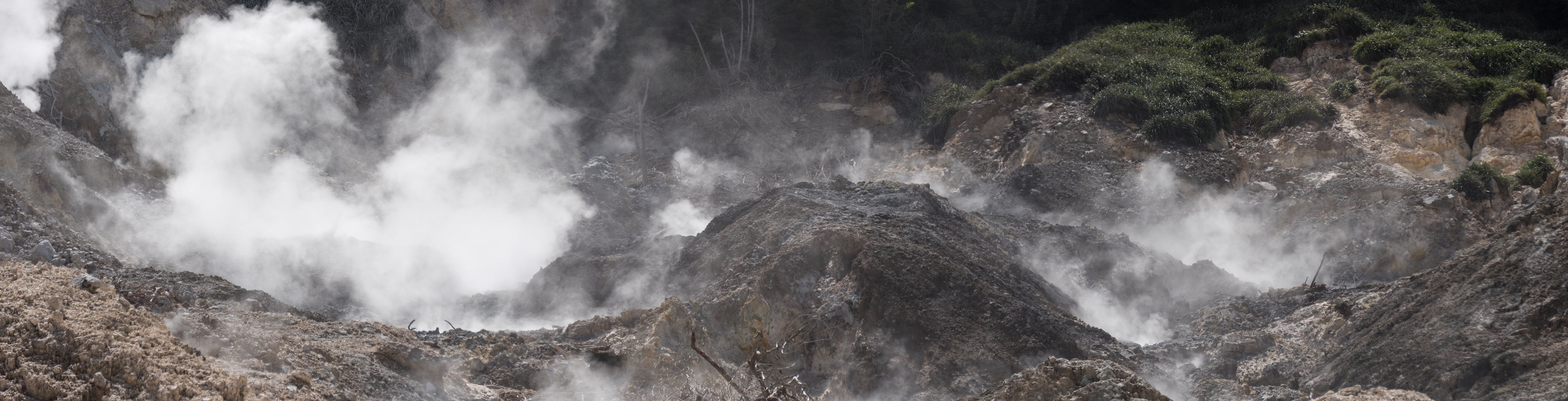 Sulphur Springs geothermal area near Soufrière, Saint Lucia showing hot pools and steaming fumaroles - April, 2017.